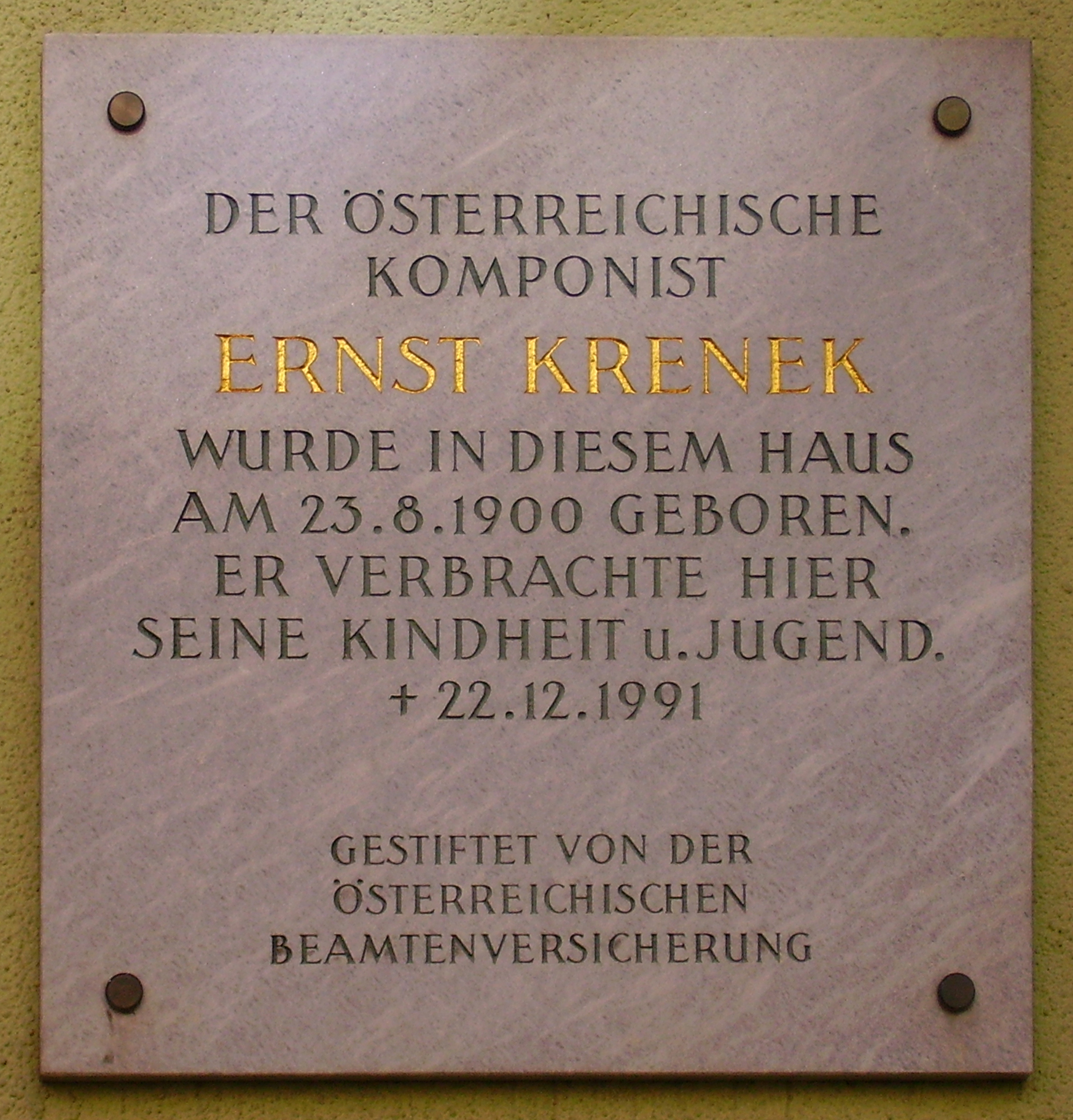 Ernst Krenek, memorial plaque at his house of birth, Vienna, Argauergasse 3